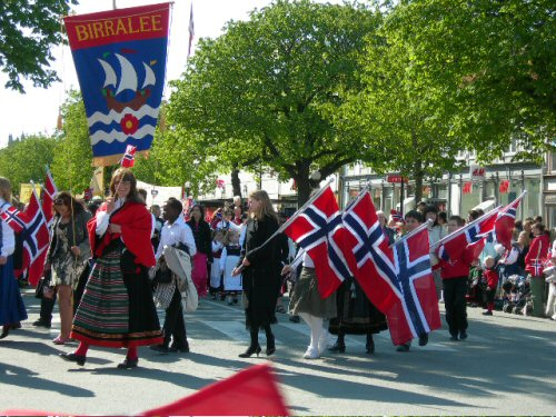 Birralee 17th May Parade. Photographer: Wilco van der Kaaden, school administrator